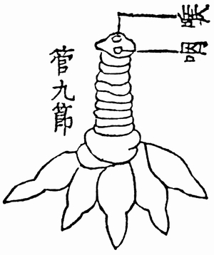 Lung (肺) from the Wakan Sansai Zue (和漢三才図会)